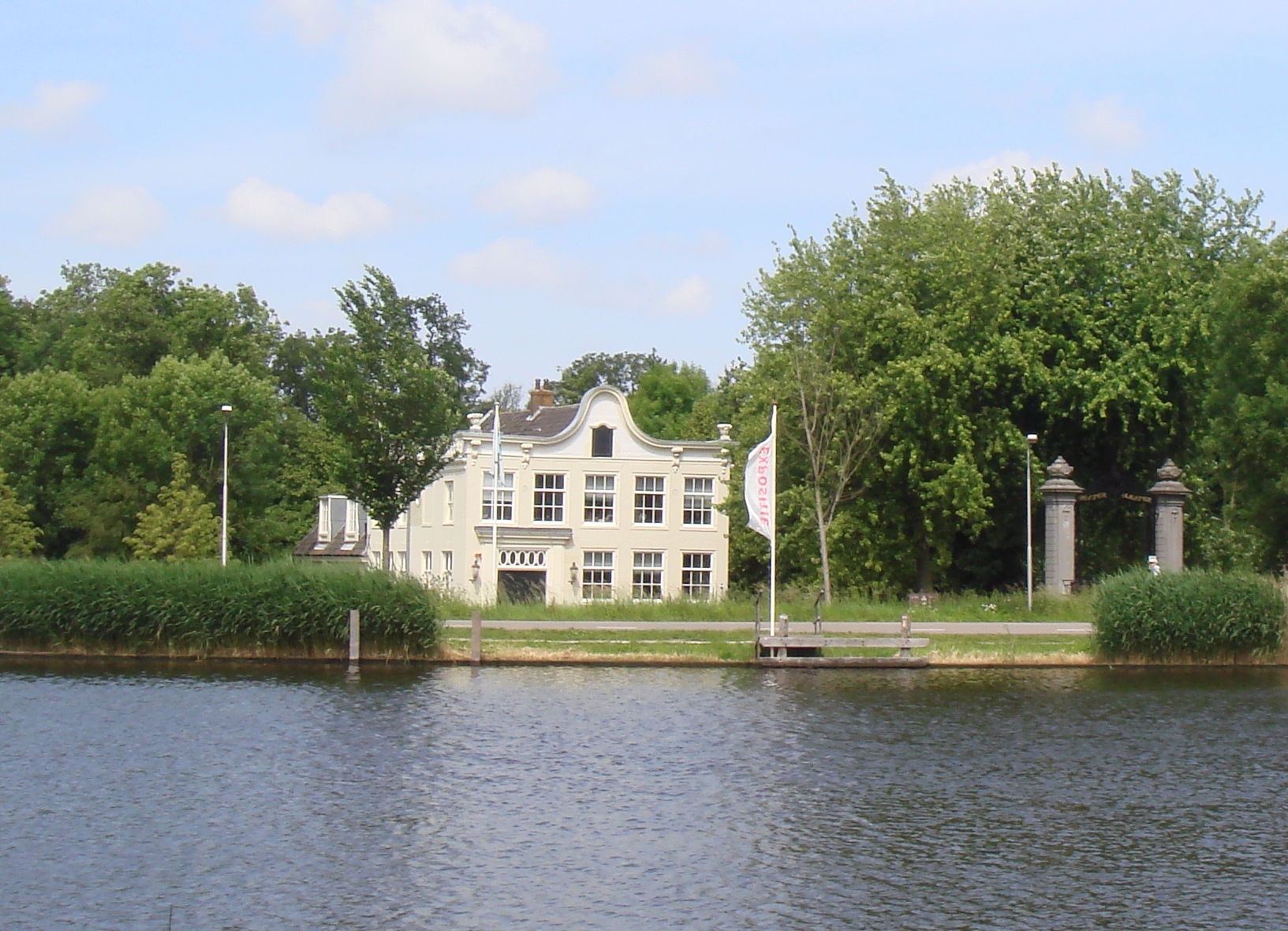 Buitenplaats Wester-Amstel